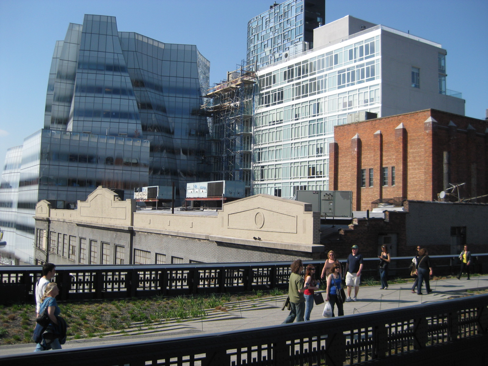 Highline in New York